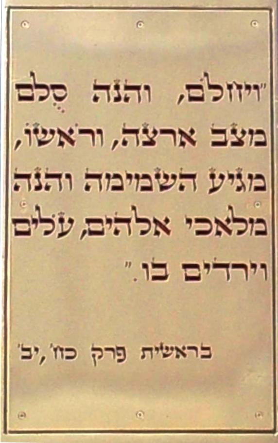 Monument to the sixteen civilians killed by suicide bombers in the city of Beer Sheva, Israel, August 31, 2004. Israeli officials blamed the attack on Palestine's democratically elected Hamas leadership. The quotation engraved is from Genesis Chapter 28 Verse 12 (in hebrew): "And he dreamed, and behold, there was a ladder set up on the earth, and the top of it reached to heaven. And behold, the angels of God were ascending and descending on it!"